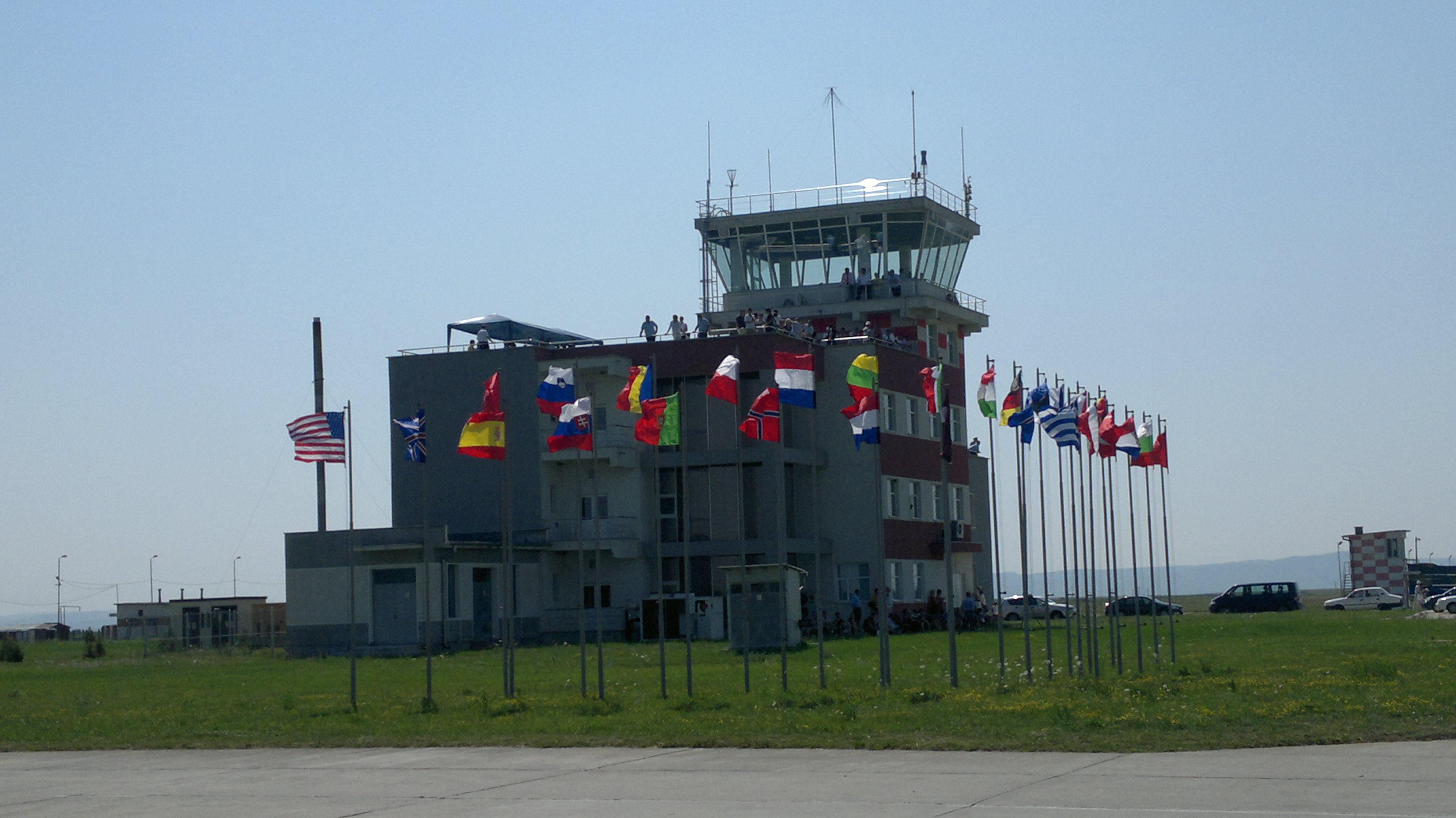 The Control Tower building at the 71st Air Base of the Romanian Air Force, located near Câmpia Turzii.